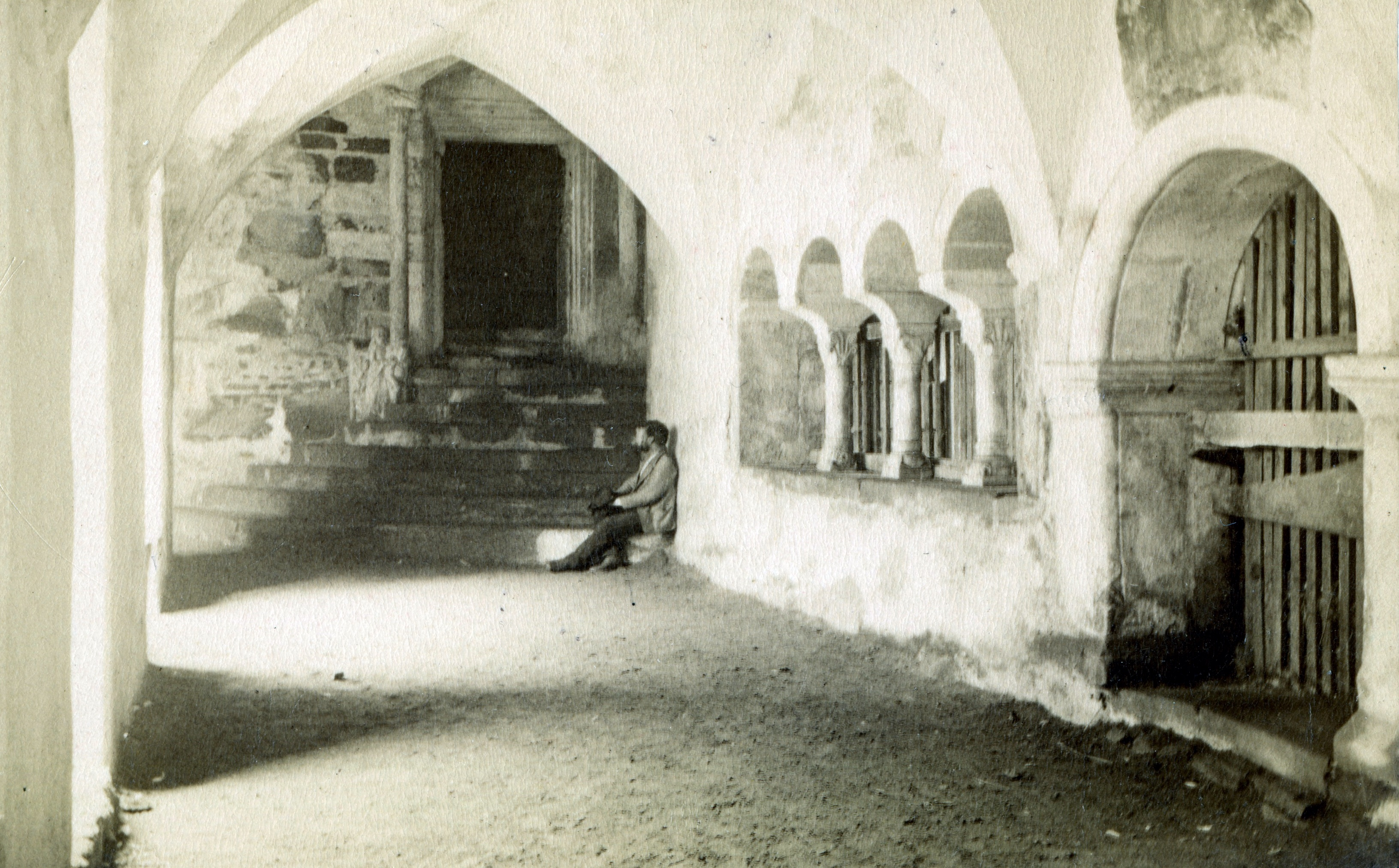 Porch to church in the romanesque cloister of Millstatt Abbey near Spittal an der Drau / Carinthia / Austria / EU around 1890. The photo shows the cloister in the period before mass tourism. The four arcade right and the exit to the courtyard that led into the no longer existing chapter house, are still fenced off with boards. The soil still has no covering. In the background, an unidentified man, possibly the photographer. Original image size: 58 X 93 mm. Image Print: Carinthia. No. 754th Nördl. D. rom corner cloister, Millstatt.